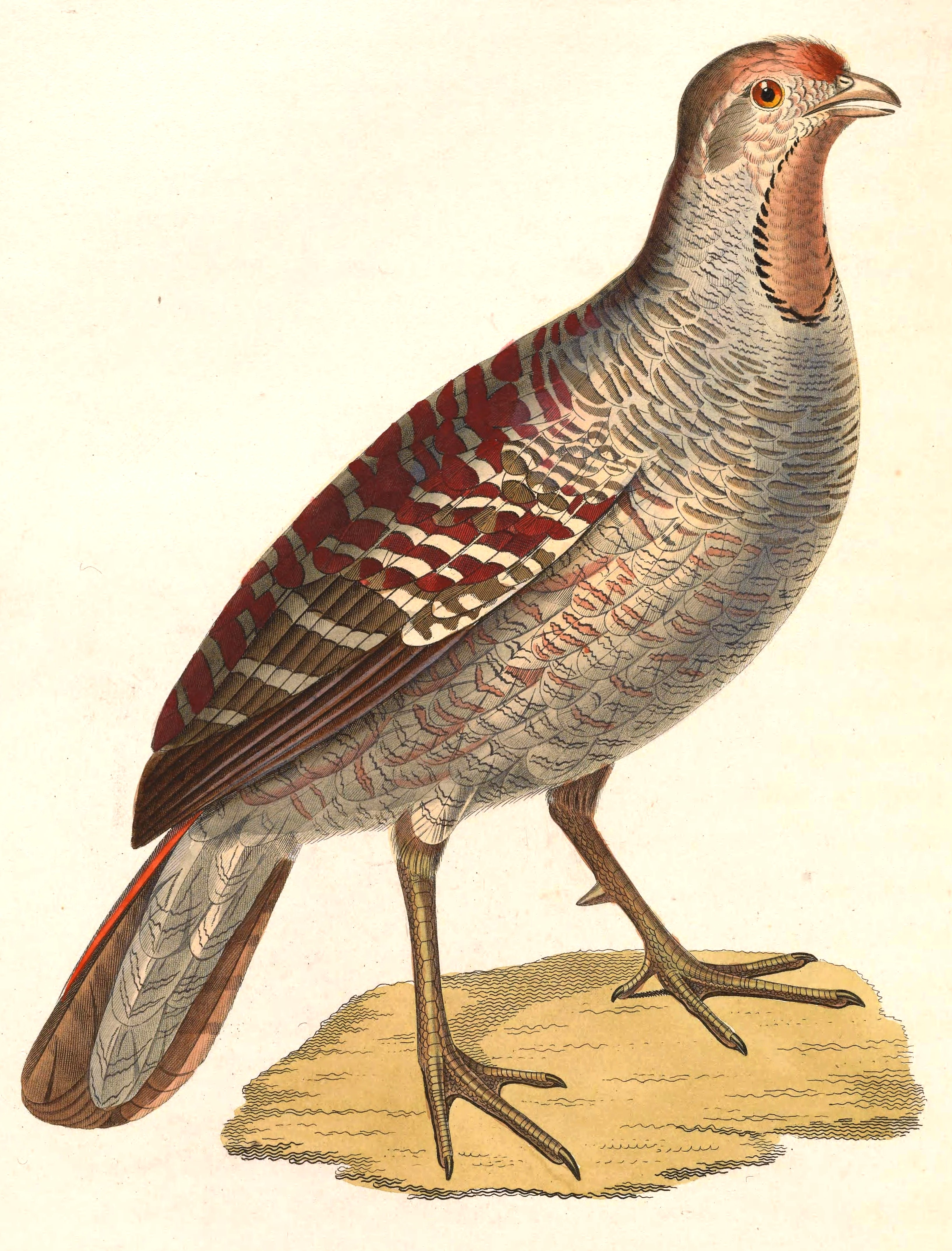 « Perdix pondiceriana » = Francolinus pondicerianus (Grey Francolin) - male